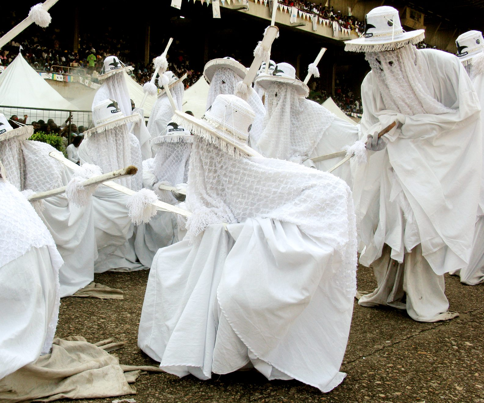 Eyo Olokun masquerades at the Teslim Balogun Stadium in Lagos. Eyo Olokun are connected with Olokun, the Yoruba orisha of the sea.